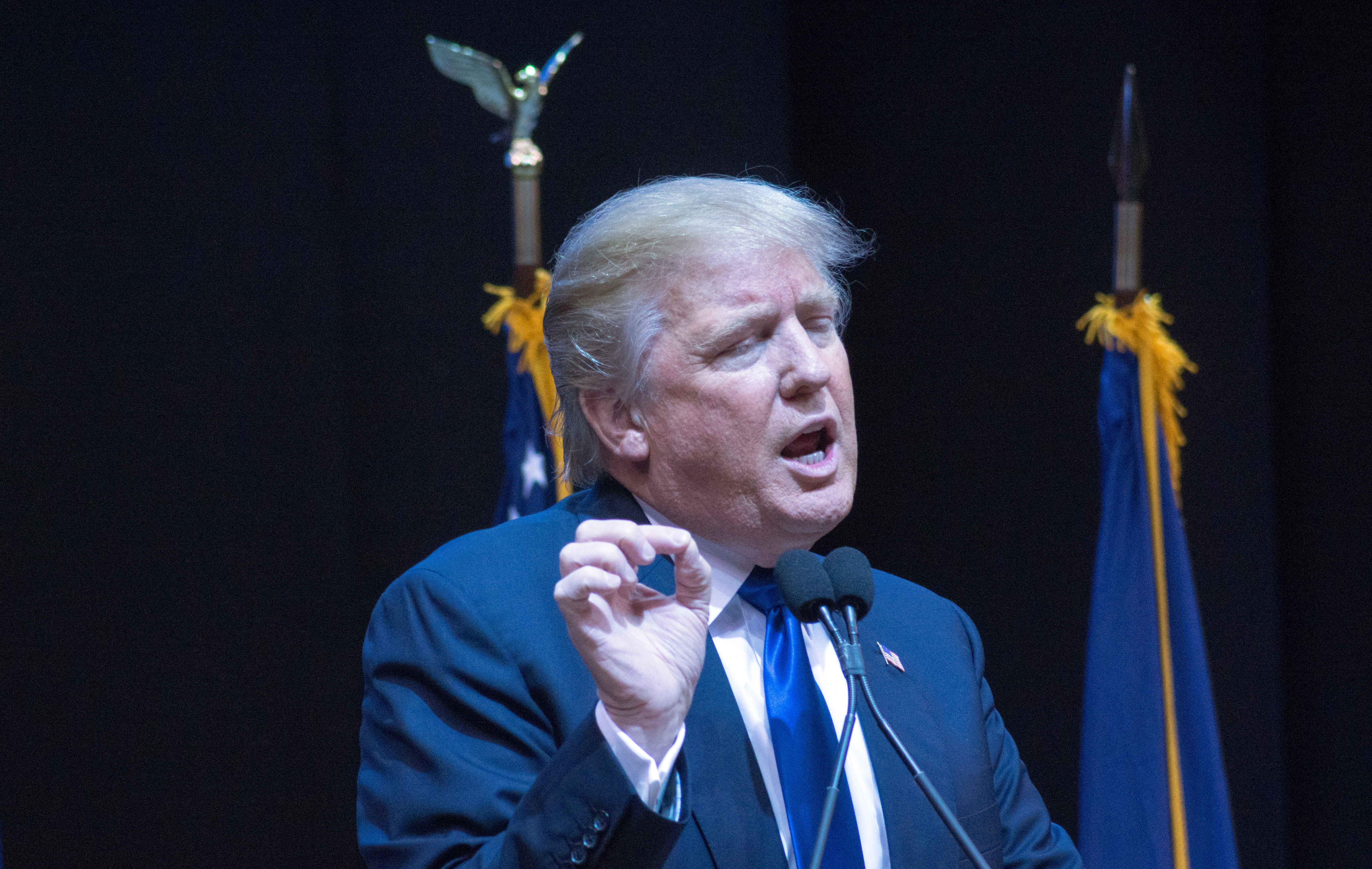 Donald Trump in Manchester, New Hampshire, February 8, 2016